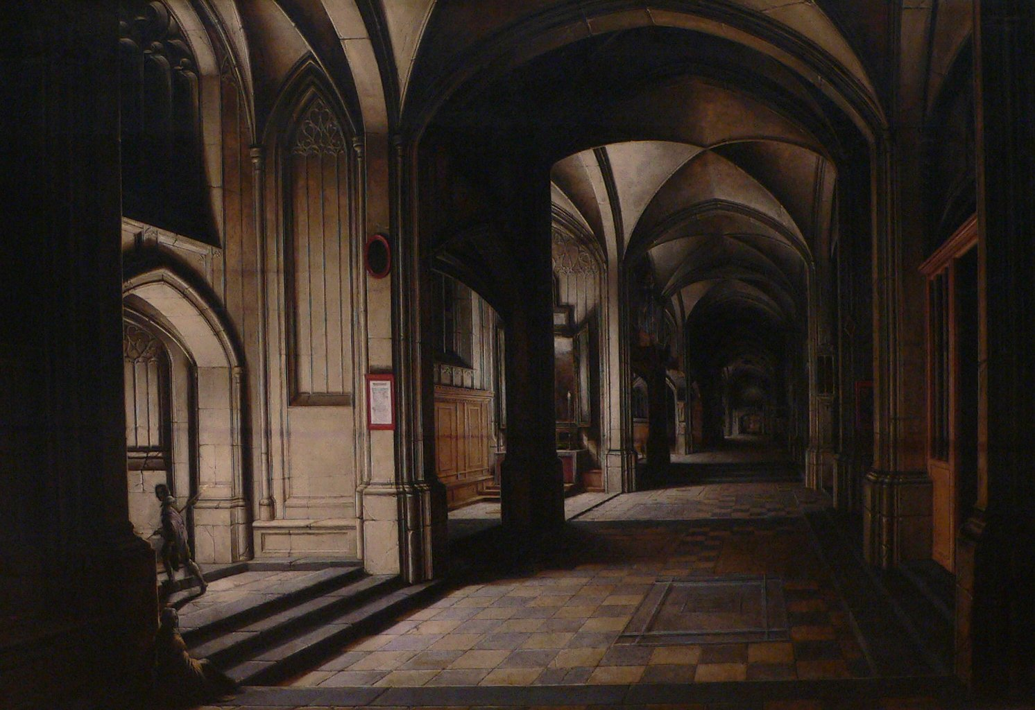 Interior of a Church. Effet de Nuit.